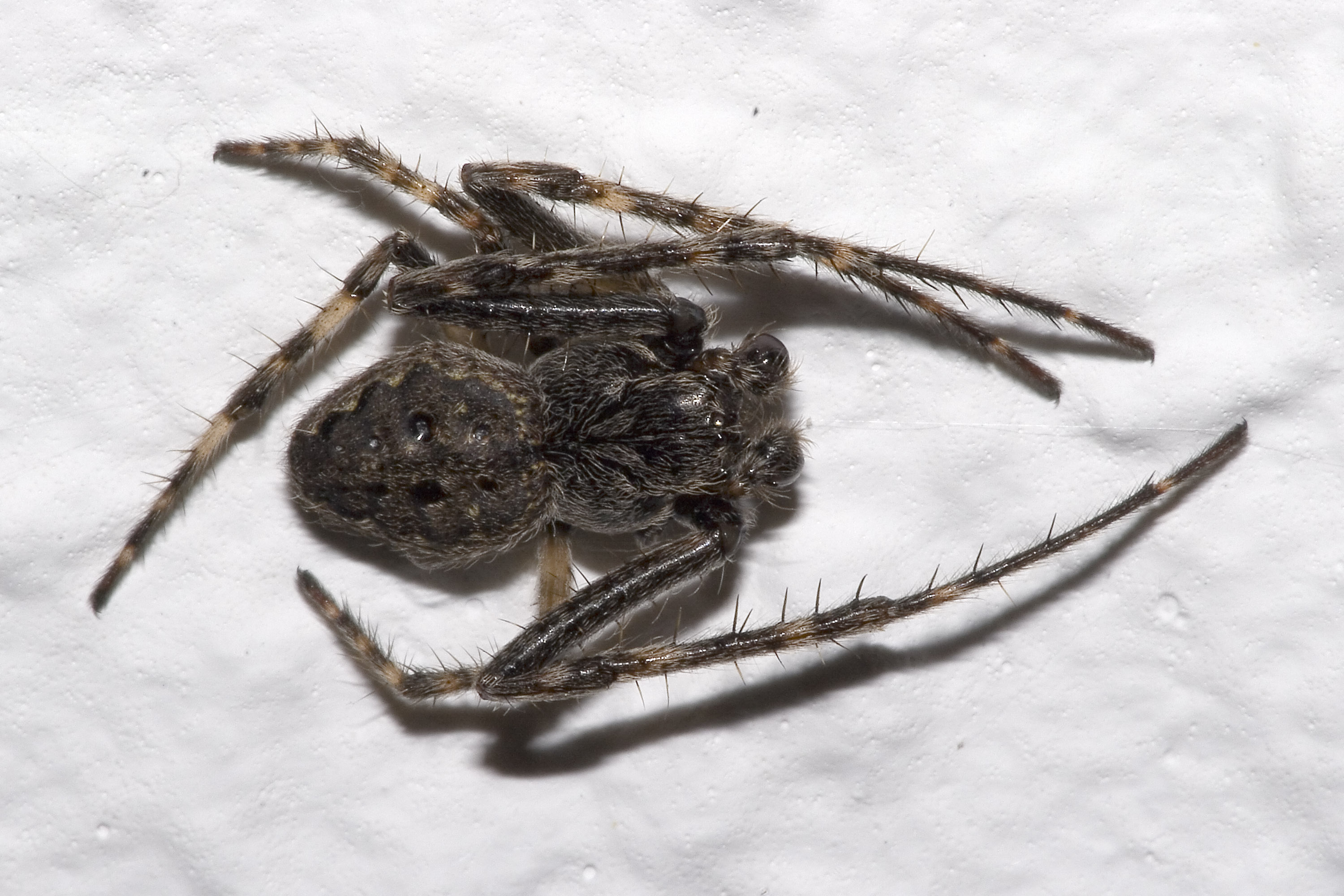 Walnut Orb-Weaver Spider